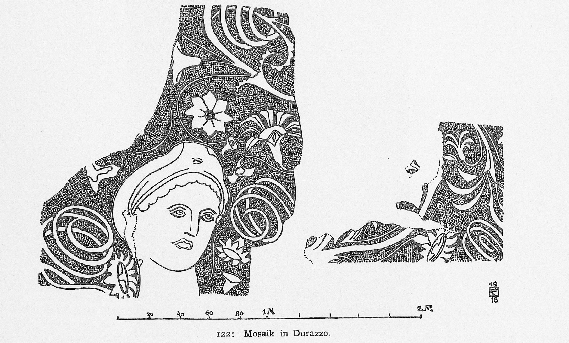 Sketch of the Beauty of Durrës, hellenic mosaic found in Albania, made by Camillo Praschniker in 1918